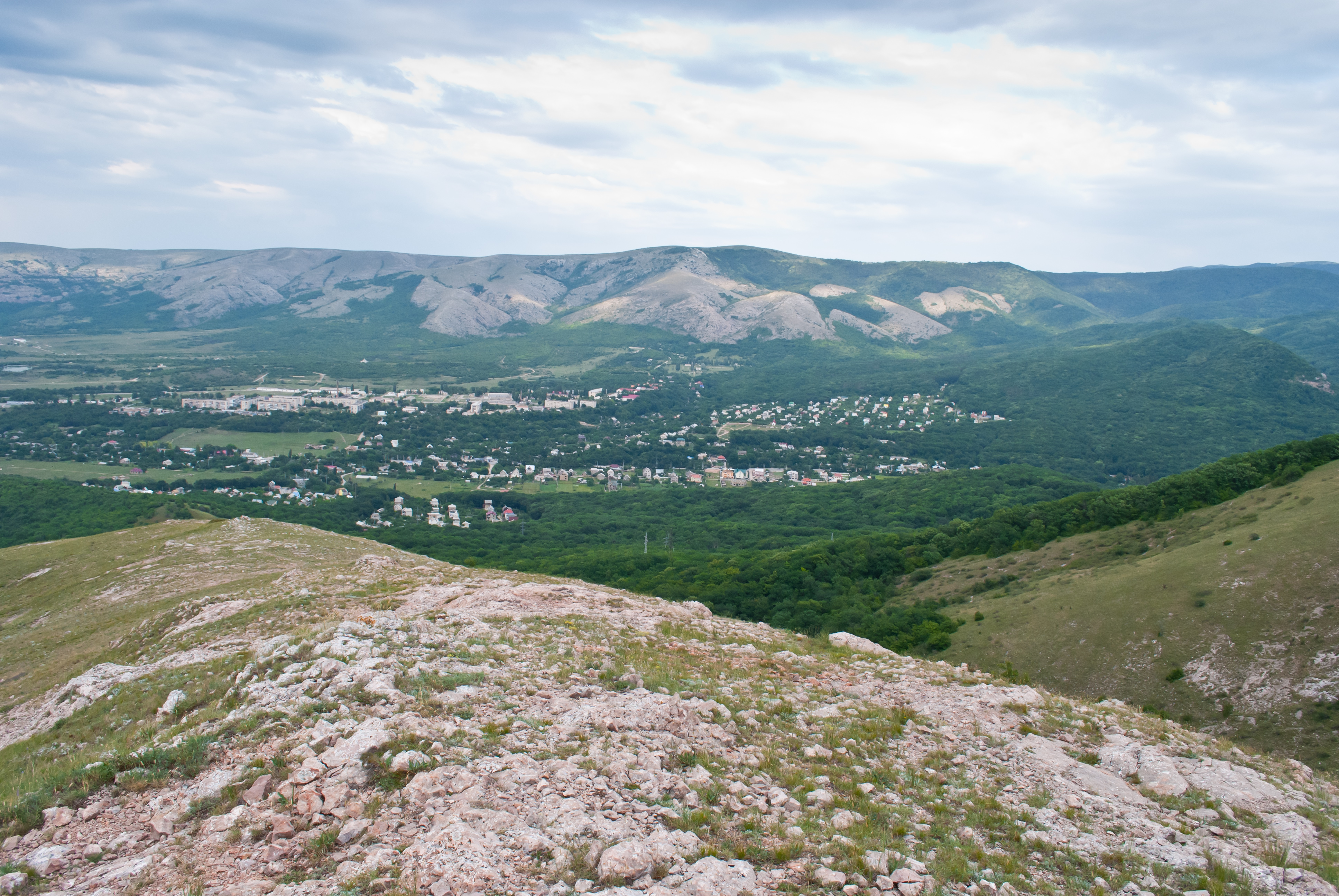 Foto of the villages Perevalnoye and Chaykovskoy (Simferopol district) viewed from Chatyr-Dag.